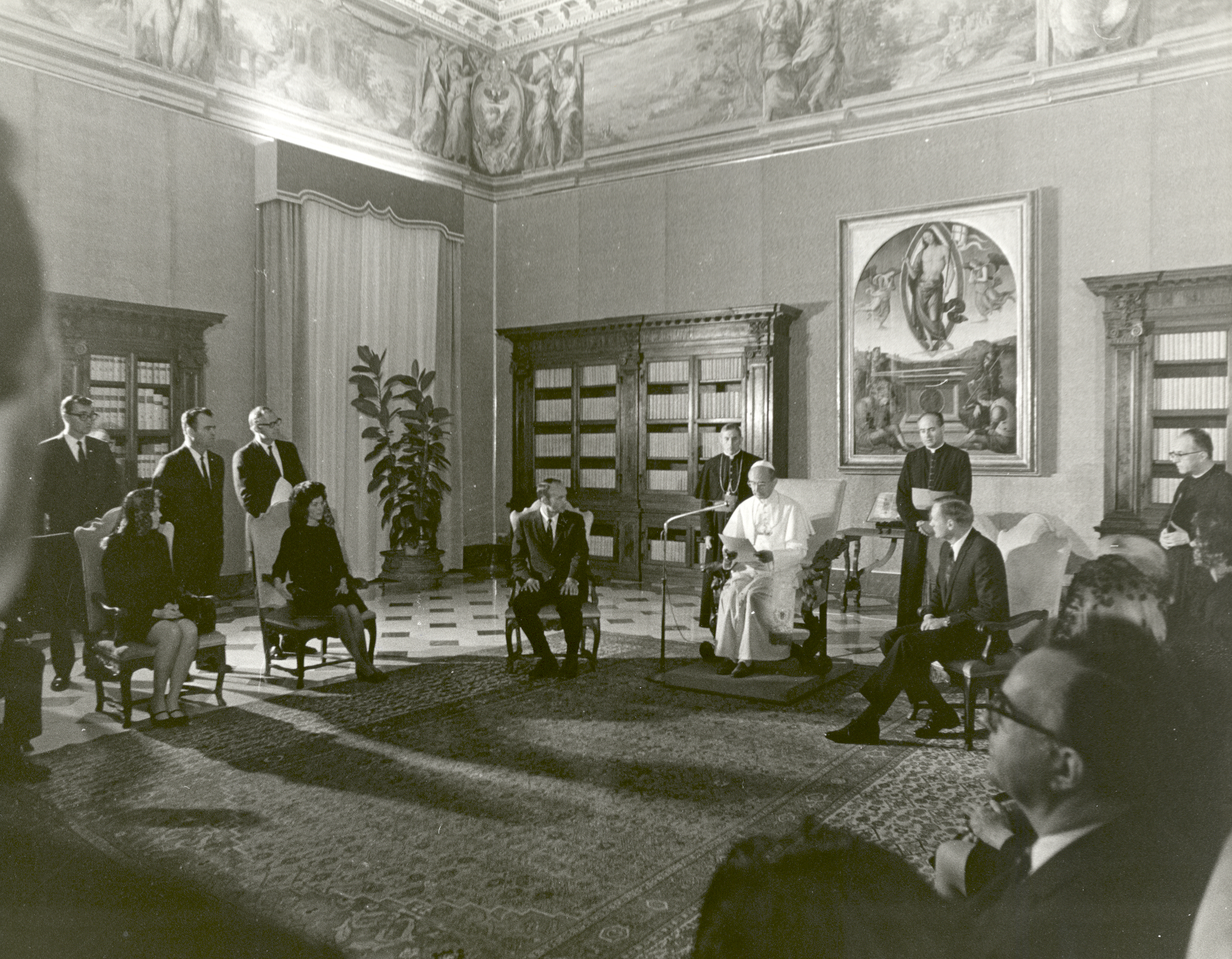 The Apollo 11 astronauts, Neil A. Armstrong, Edwin E. Aldrin, Jr., Michael Collins, and their wives receive a papal audience by Pope Paul VI in the Papal Library, St. Peters Cathedral at the Vatican. The GIANTSTEP-APOLLO 11 Presidential Goodwill Tour emphasized the willingness of the United States to share its space knowledge, and carried the Apollo 11 astronauts and their wives to 24 countries and 27 cities in 45 days.